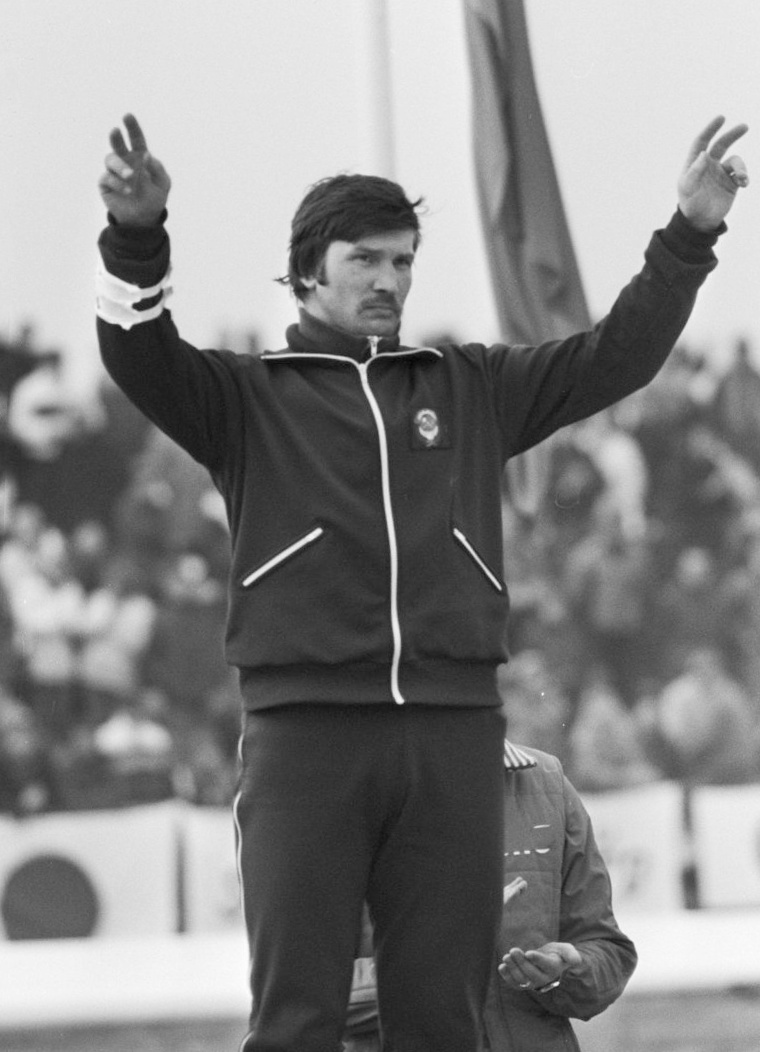 Photographer: Bogaerts, Rob / Anefo